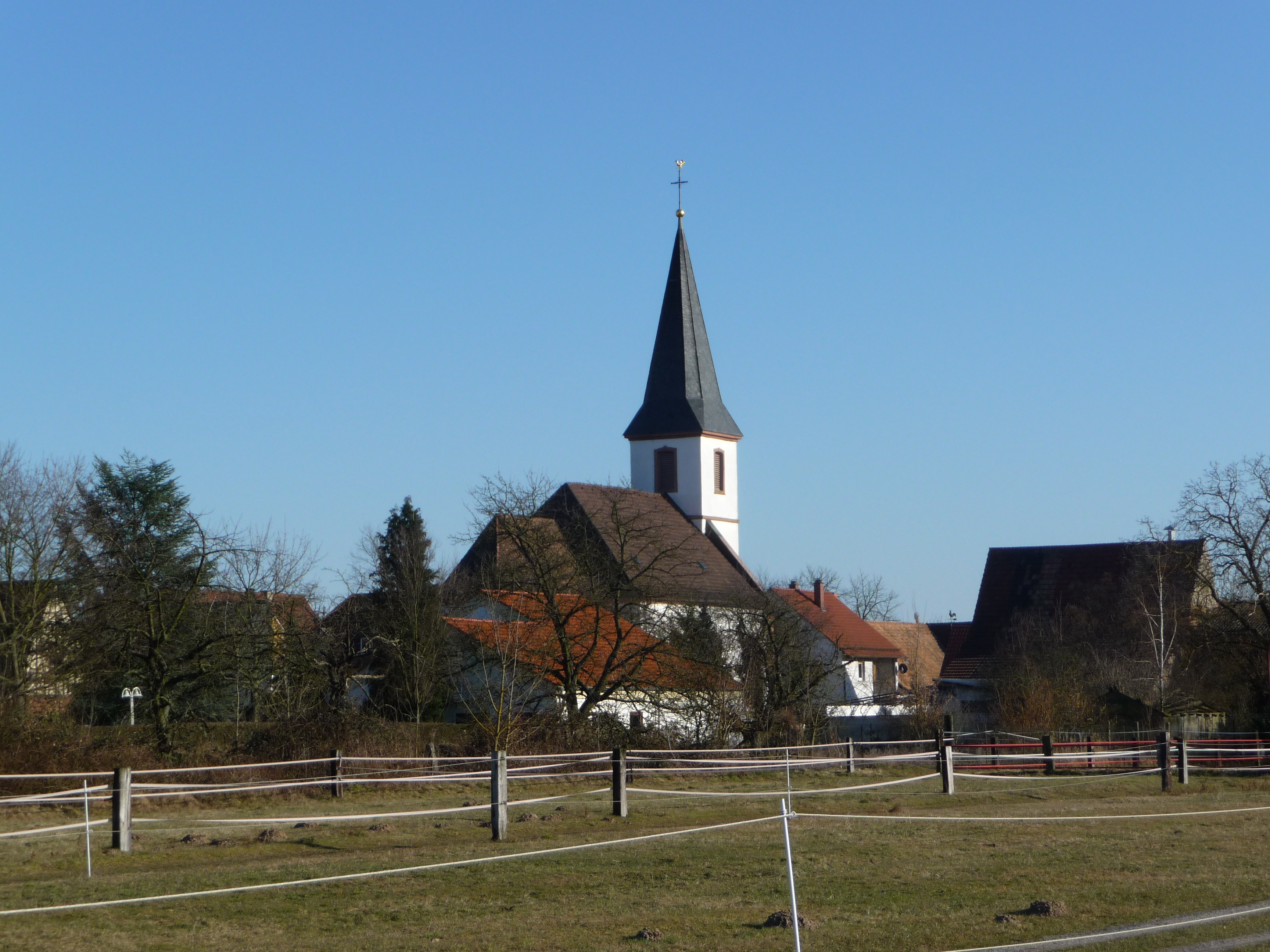 Hanhofen